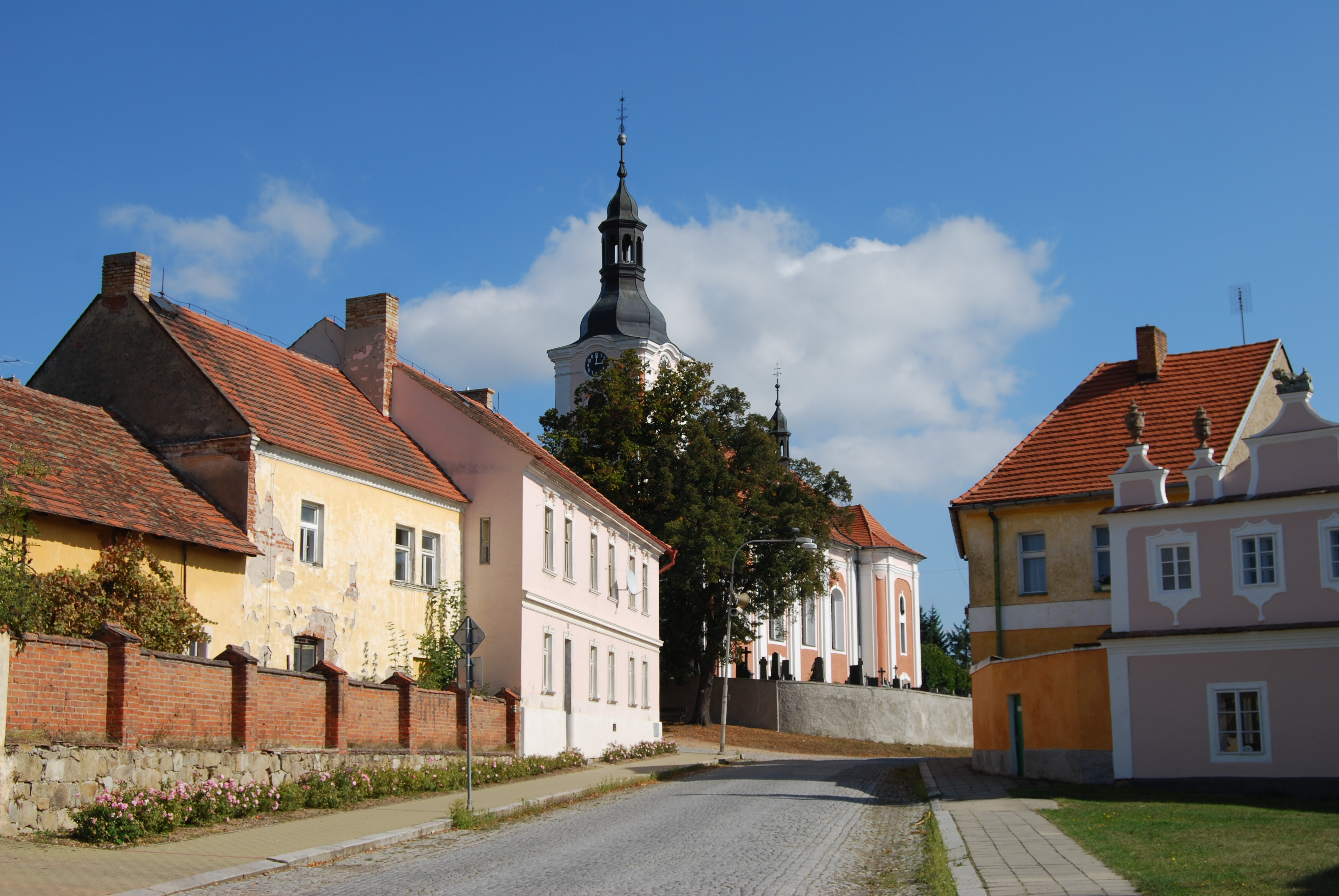 Sedlice town in Strakonice District, Czech Republic. Church of Saint Jacob